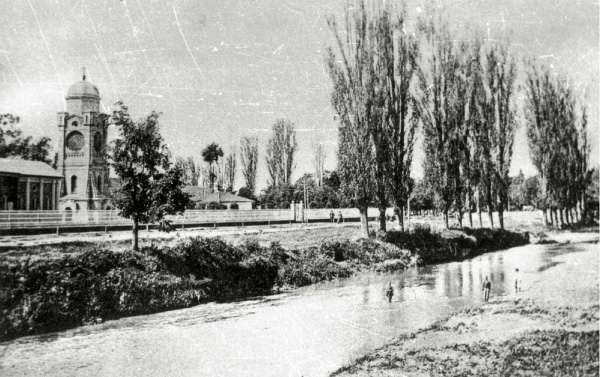 Description River lepenica in City of Kragujevac